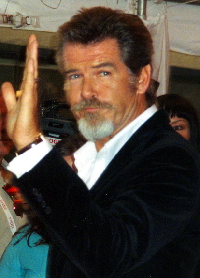 Pierce Brosnan @ the Matador premiere